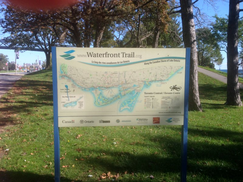 A sign noting The Waterfront Trail in Toronto, Canada